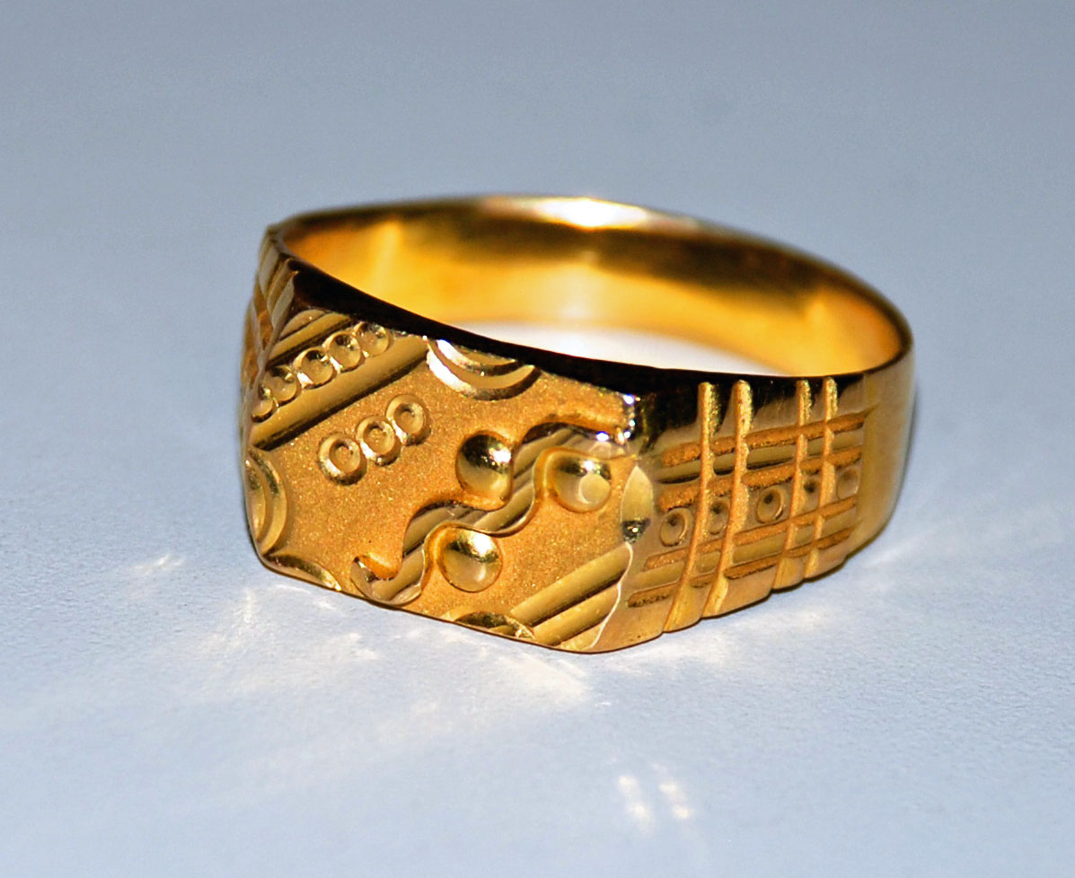 A Wedding Ring